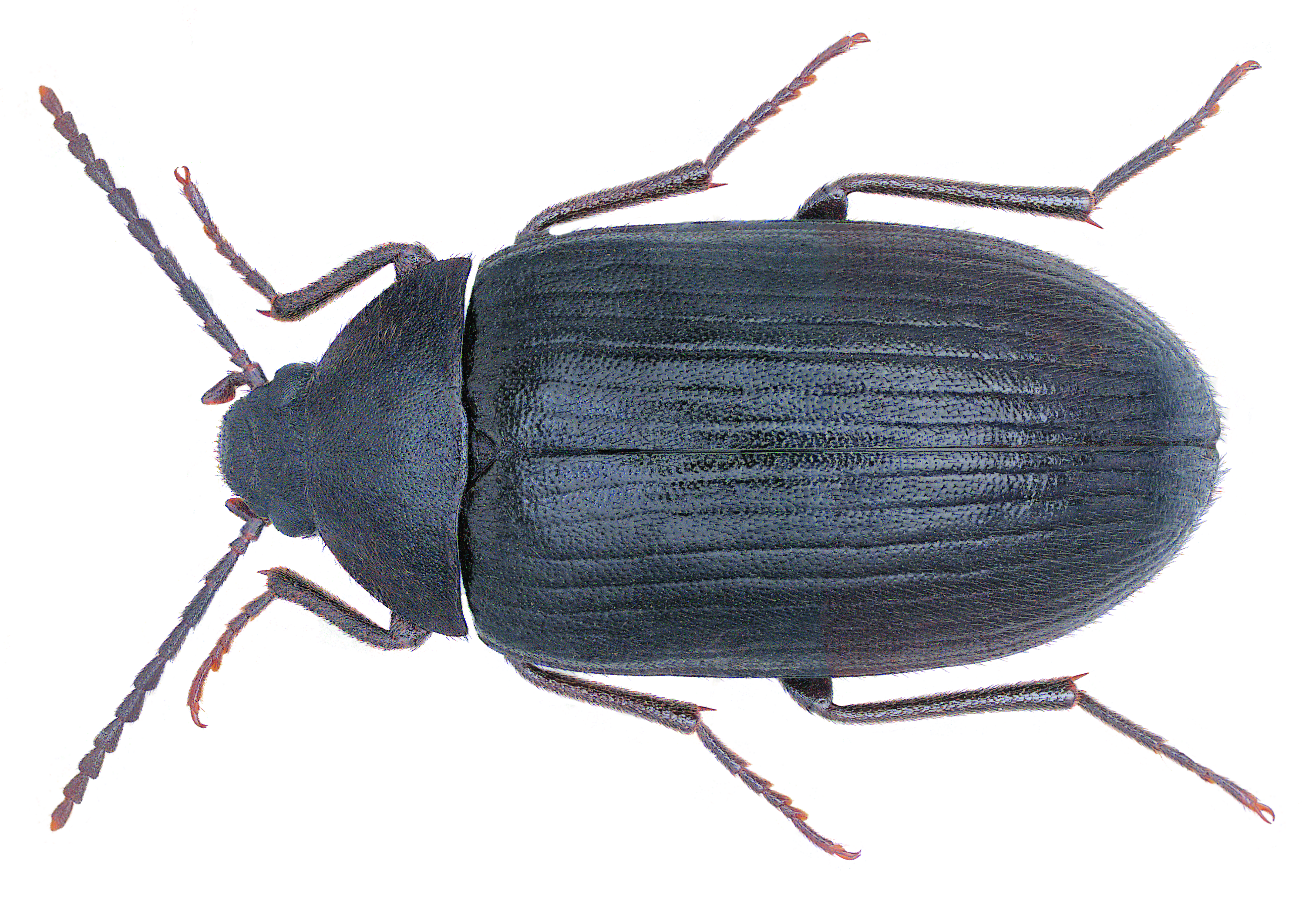 Family: Tenebrionidae (Alleculidae, Alleculinae) Size: 14.0 mm (12.0 to 14.0 mm) Origin: Central Europe, Southern Europe Ecology: In sludge and under the loose bark of old deciduous trees Location: Germany, Bavaria, Upper Franconia, Kulmbach, Donnersreuth leg.det. U.Schmidt,13.VII.1975 Photo: U.Schmidt, 2017